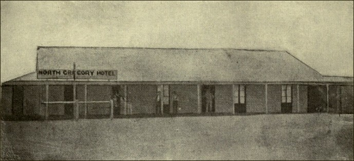 The North Gregory Hotel in Winton, Queensland, as it appeared in 1879